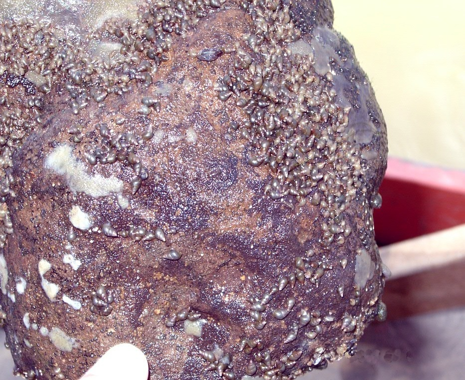 Neotricula β-aperta on a stone collected from the Mun river near Ban Hin Laht.